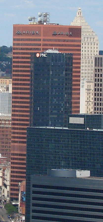 The K&L Gates Center in Pittsburgh, back when it was called the Ariba Center